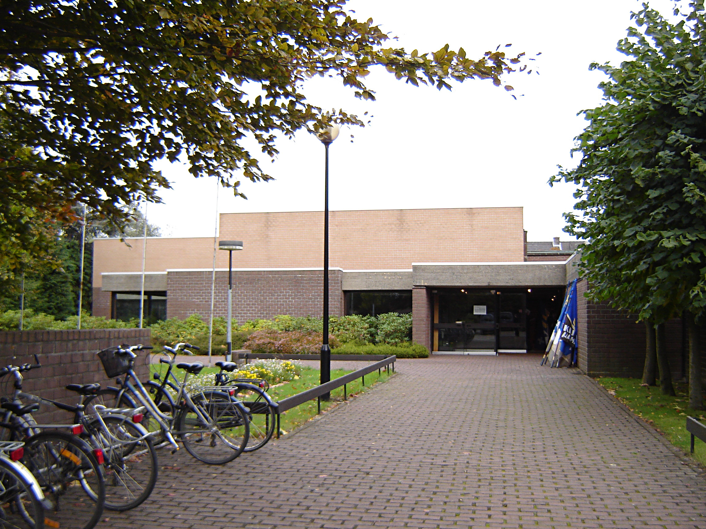 Church of the Holy Family in Hamme. Hamme, East Flanders, Belgium